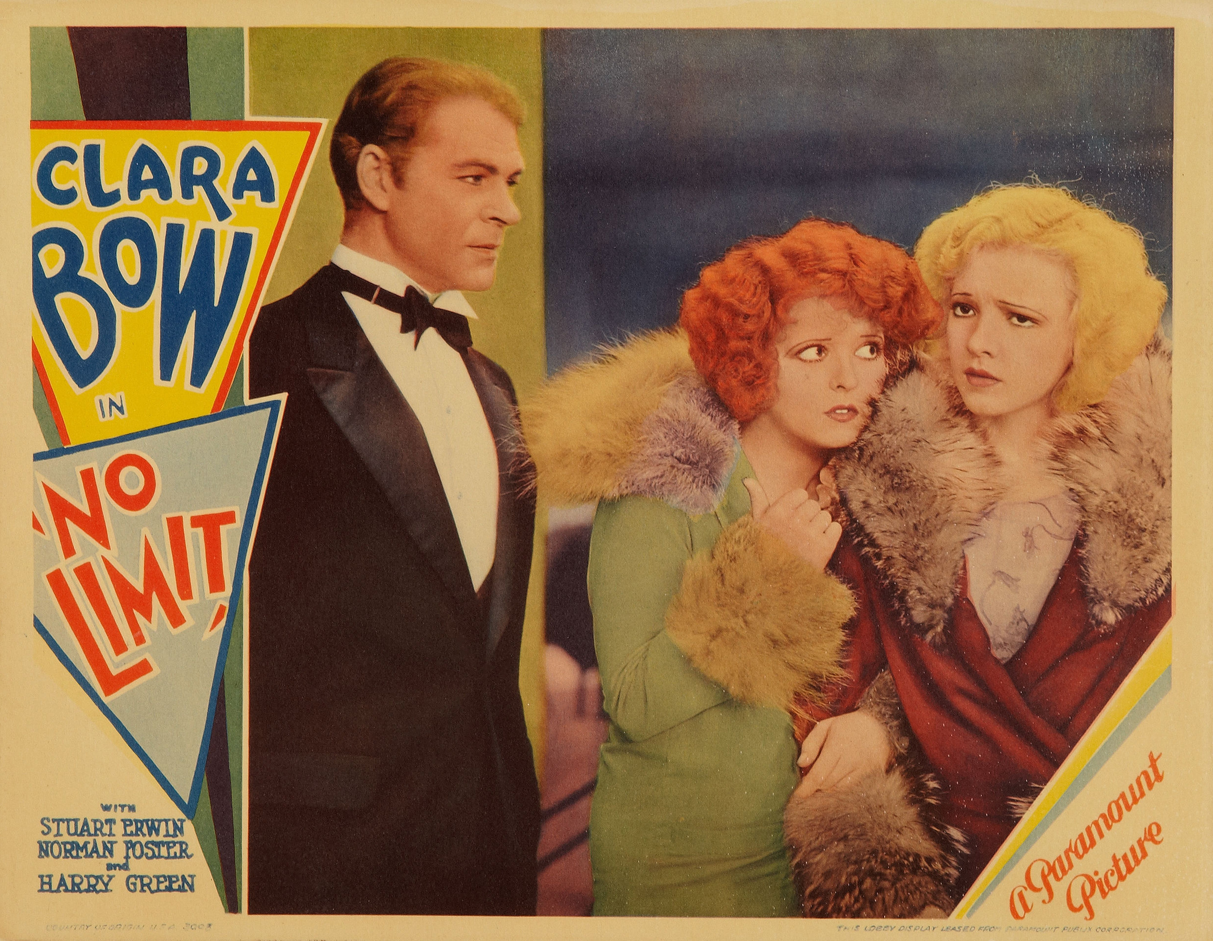 Lobby card for the American musical comedy film No Limit (1931) with Clara Bow and Dixie Lee.